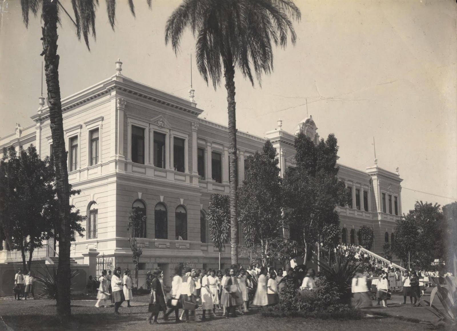 Escola Normal de Belo Horizonte em 1912.